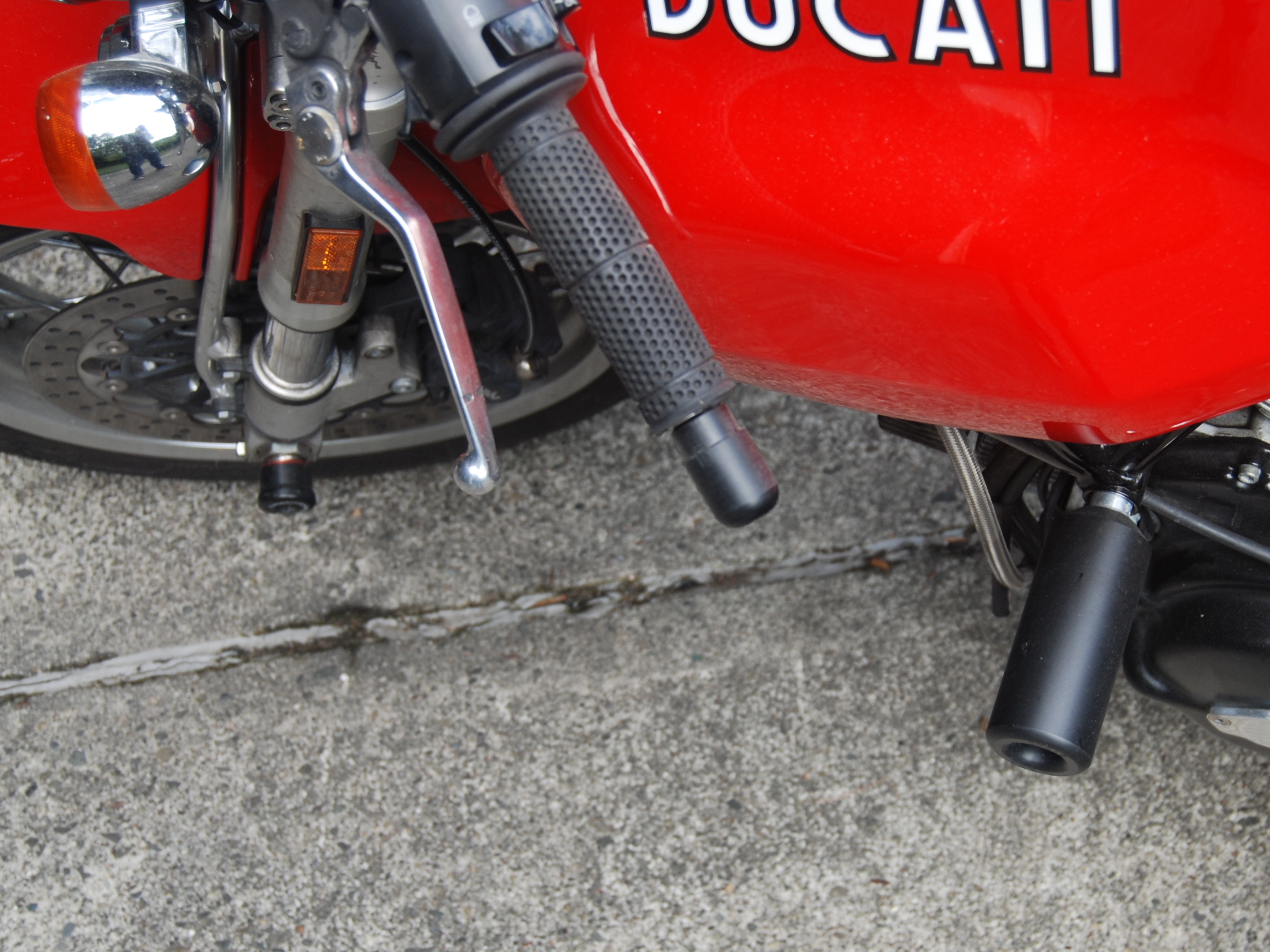 2006 Ducati Sport1000 with frame sliders, bar end sliders and fork sliders.